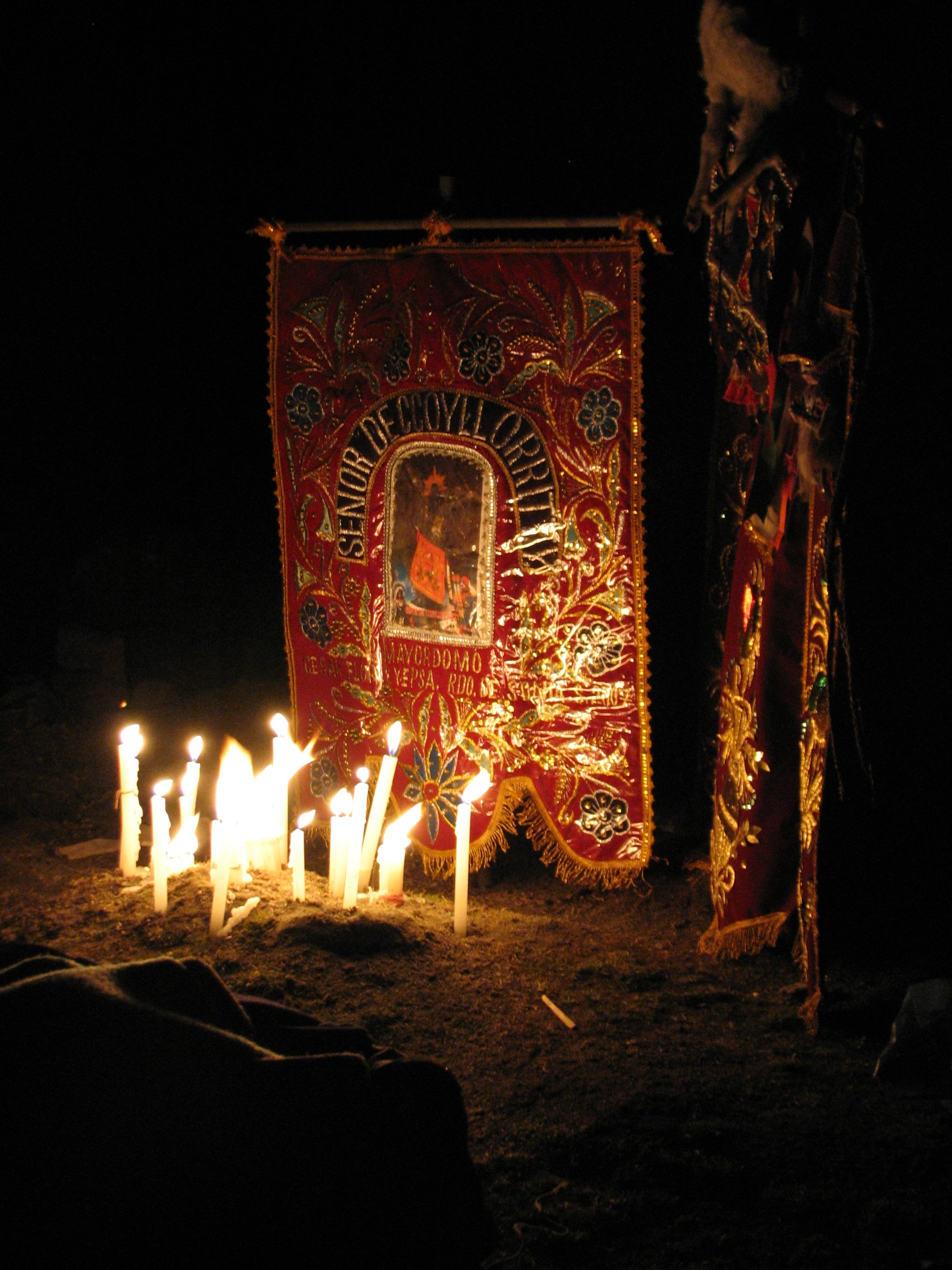 Festival Señor de Qoyllur Rit'i: Shrine by night.